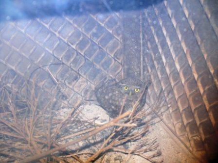 Athene noctua